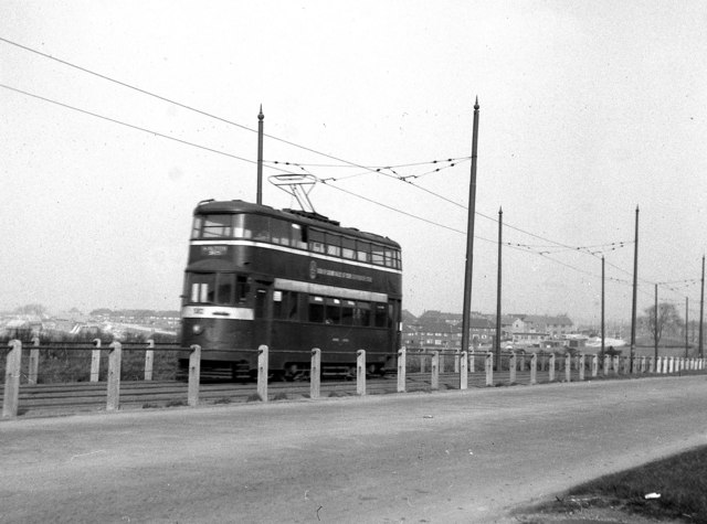 The 1949 tram extension In 1949 the political climate in Leeds was still very pro-tram, it being considered that buses alone could not handle the high demand for public transport along the narrow streets of Central Leeds. In that year, the long-planned extension to join the termini at Middleton and Belle Isle took place so that circular working could begin. Feltham car 582 heads towards Belle Isle and the City here in 1957. This was the last major tram extension in Britain.